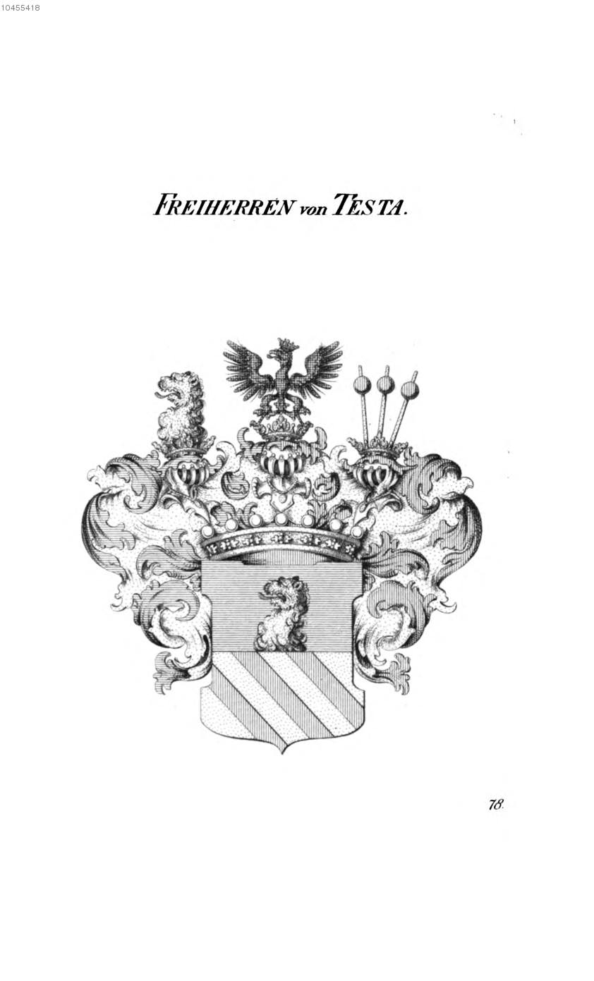 Wappen Testa - Tyroff AT.jpg